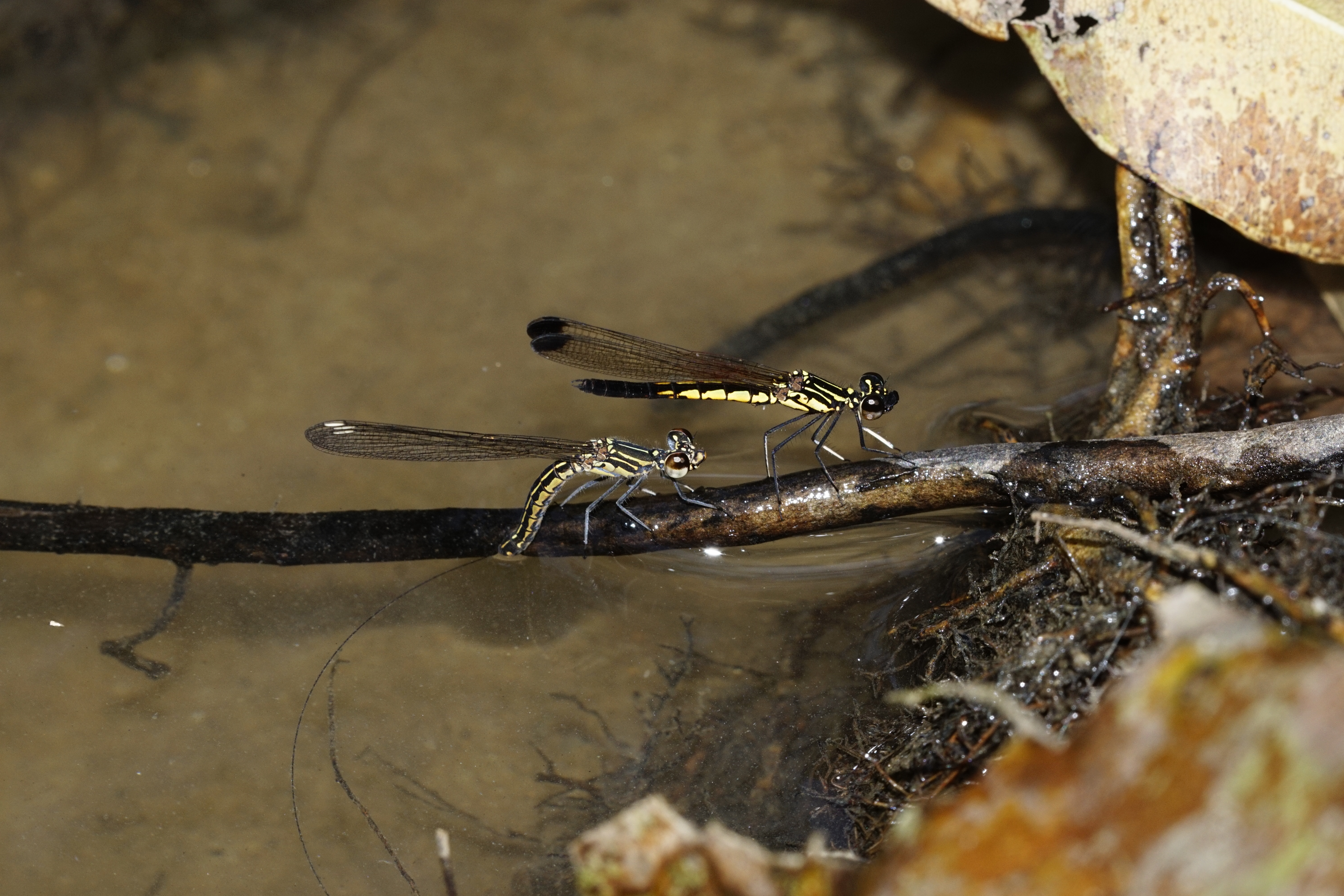 Libellago lineata